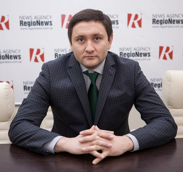 Petro Sherbyna - specialist in political technology, media consultant, managing partner of the PR-agency "Media Brand"